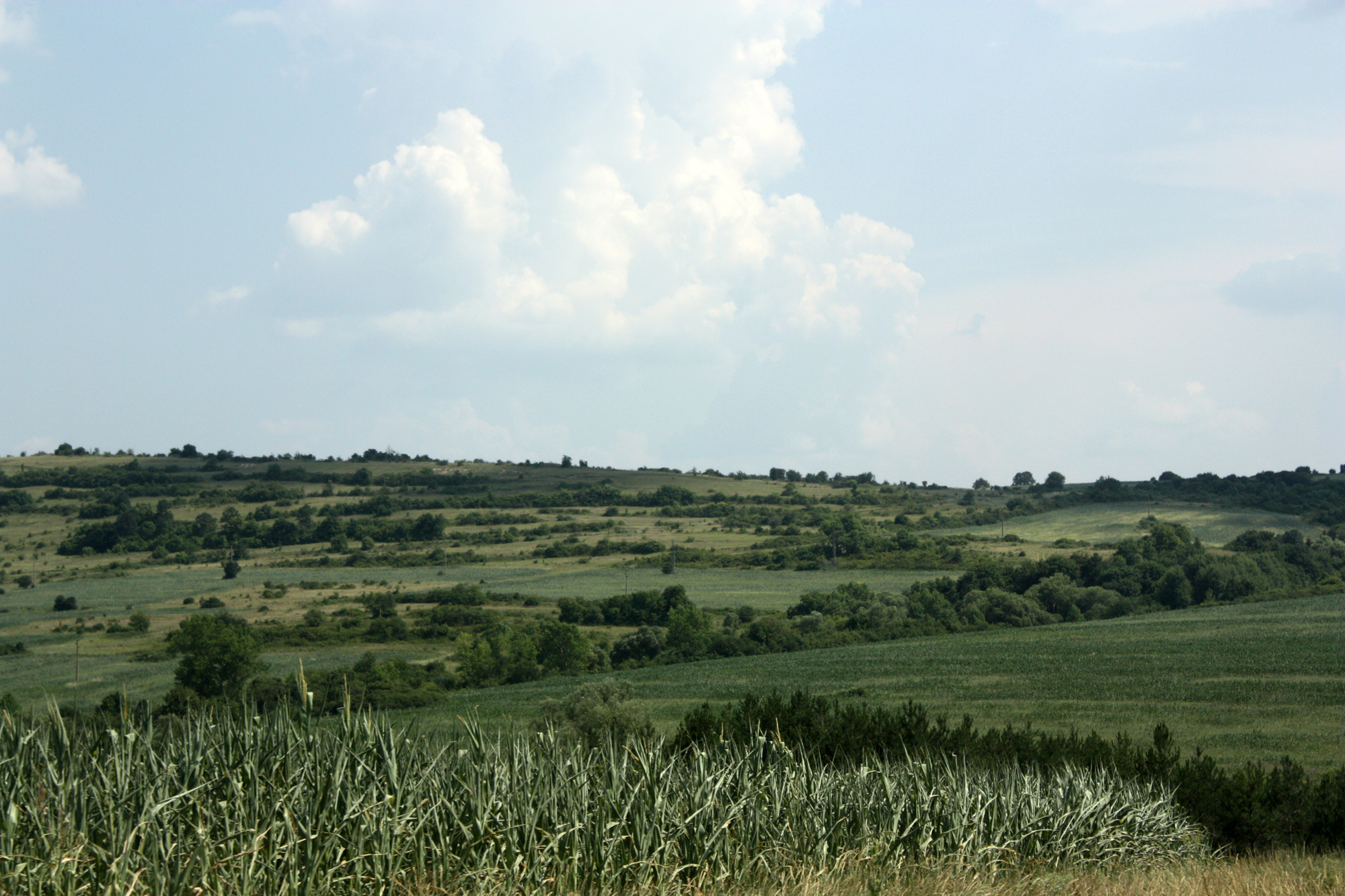 Agatovo surroundings, Bulgaria